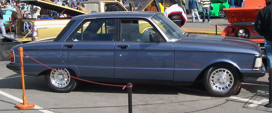 Very late Argentinian-built Ford Falcon Ghia